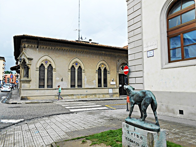 dante square and monument to Fido